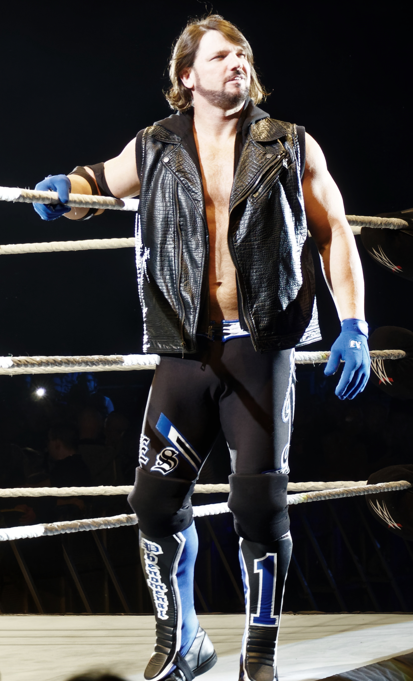 AJ Styles in April 2016